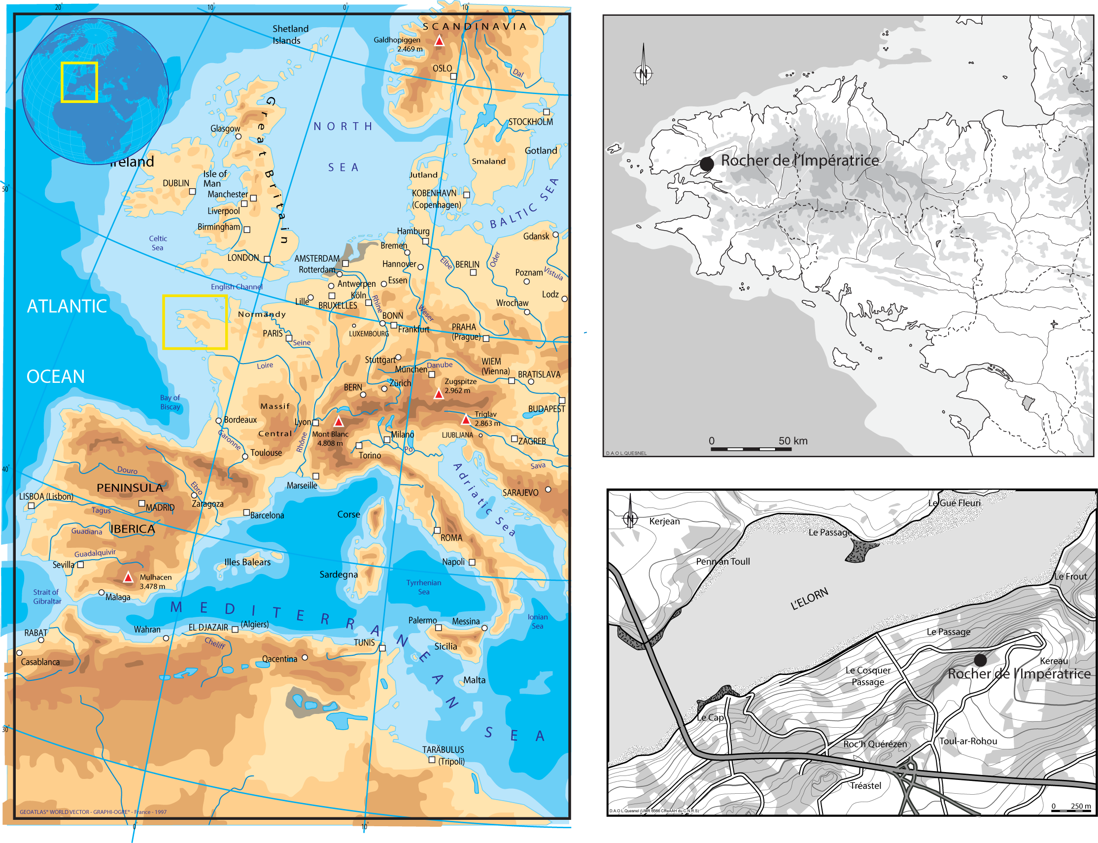 Fig 1. Location of Le Rocher de l’Impératrice rock-shelter (Europe map from Geoatlas, Brittany and local maps L. Quesnel (CNRS)).